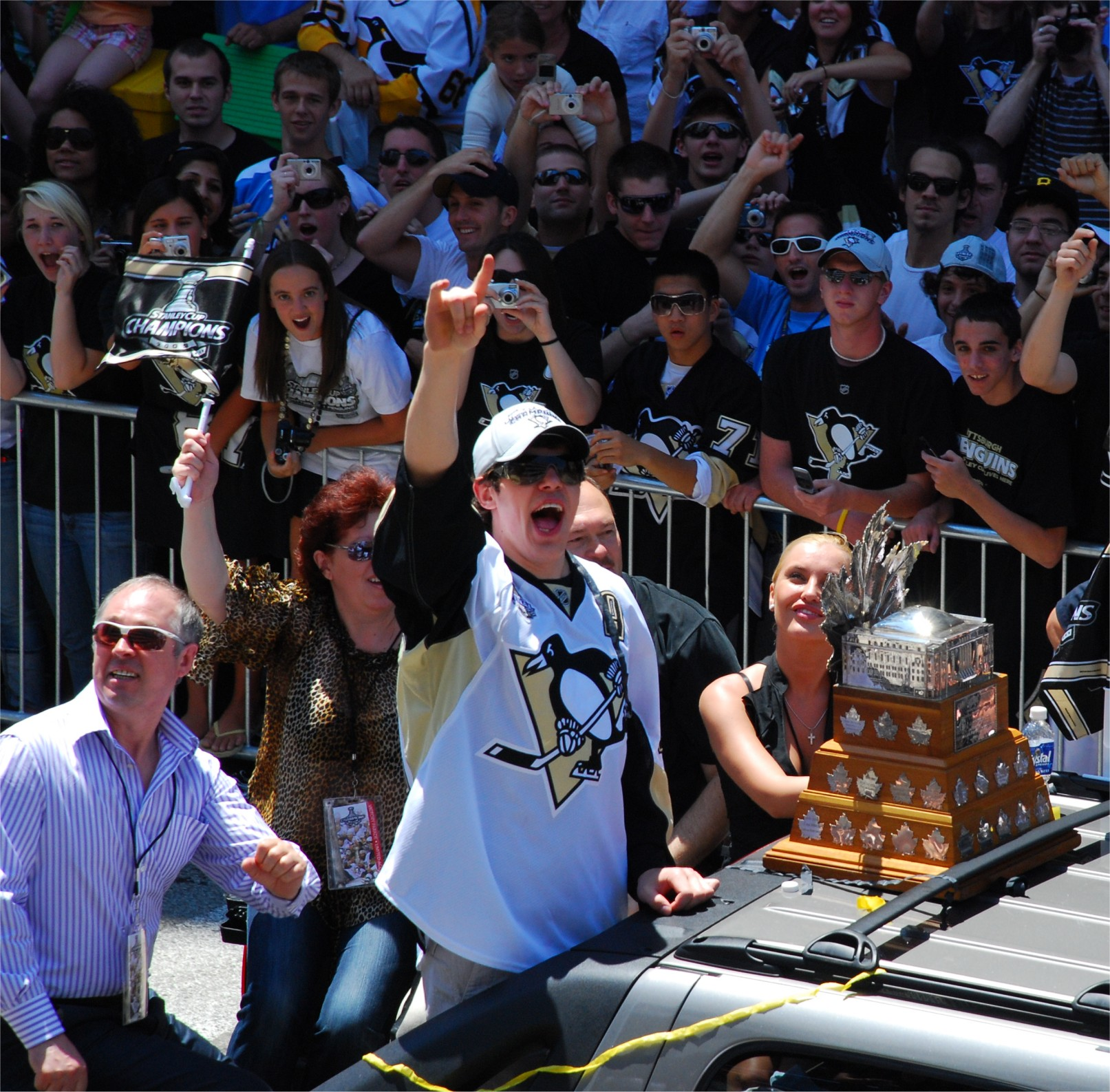 Taken during the Stanley Cup parade in 2009. Nikon D80 with 18-135 lens, cropped for WP